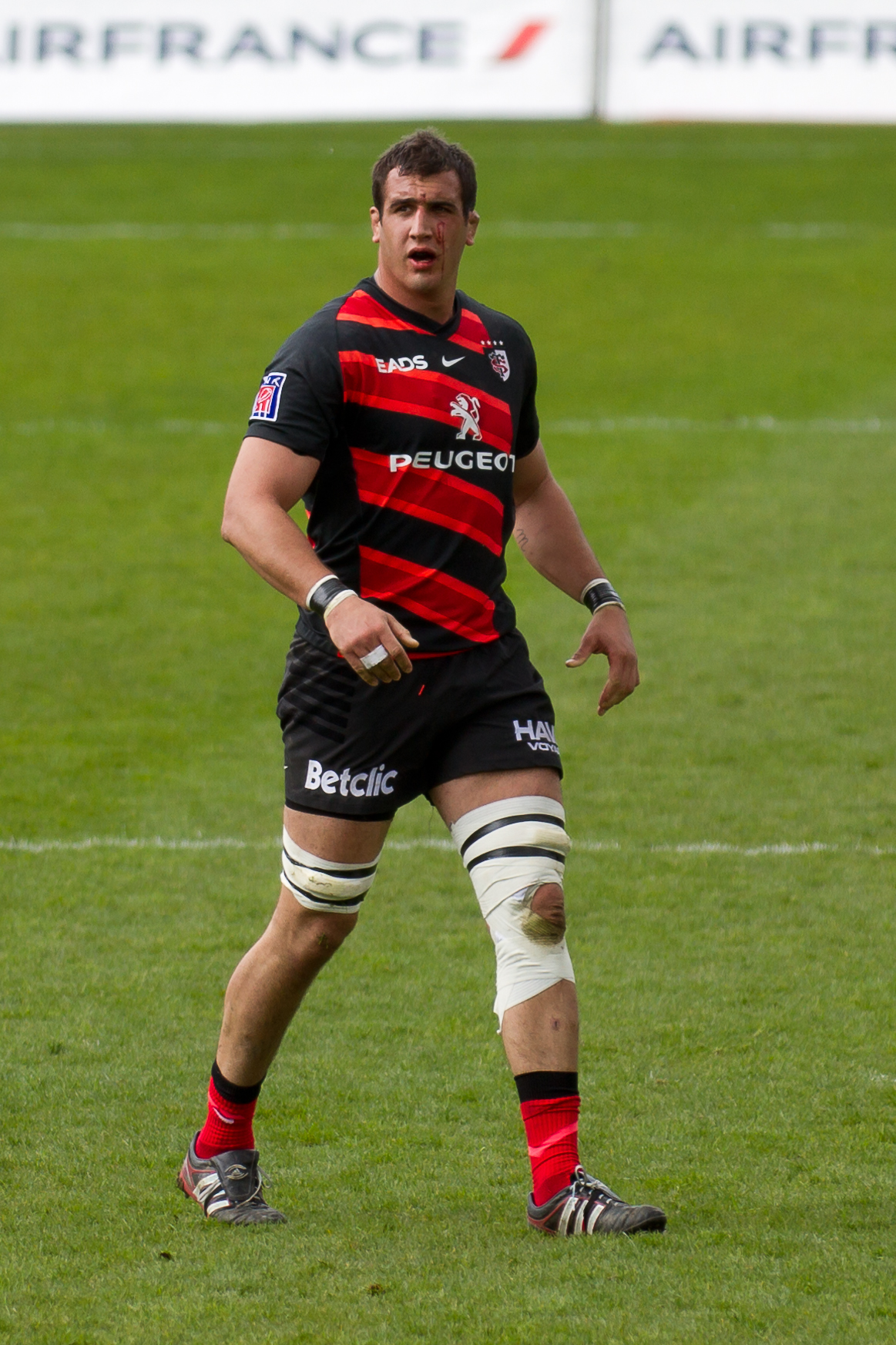 Top 14 — 21 April 2012, Stade Ernest-Wallon. Match between: Stade toulousain — CA Brive